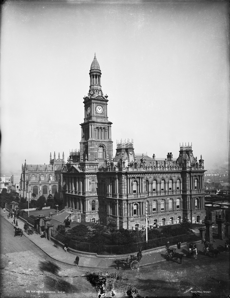 'Sydney City' Pictures from The Powerhouse Museum This files was posted to Flickr by The Powerhouse Museum (See their website for further information). Many thanks to the Powerhouse Museum for helping release this wonderful material. This tag does not indicate the copyright status of the attached work. A normal copyright tag is still required. See Commons:Licensing for more information.